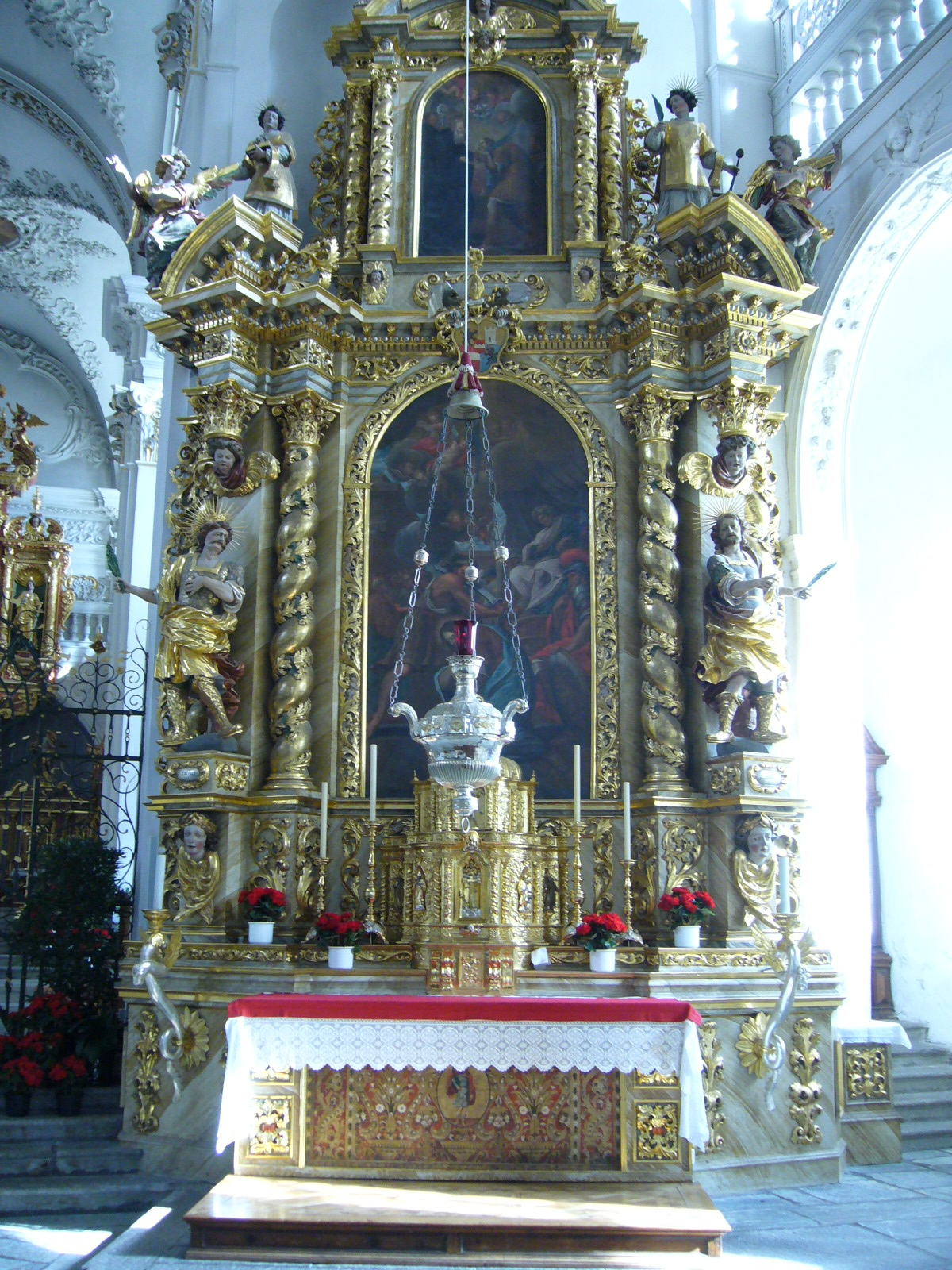 Altar of Placidus in the Church of the monastery Disentis. Picture taken by Peter Berger, July 31, 2006.